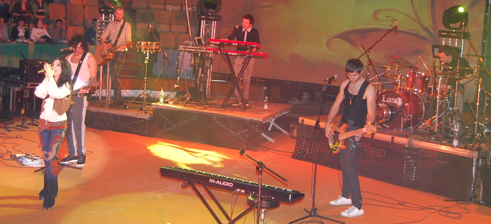 Lama during a concert in Lviv